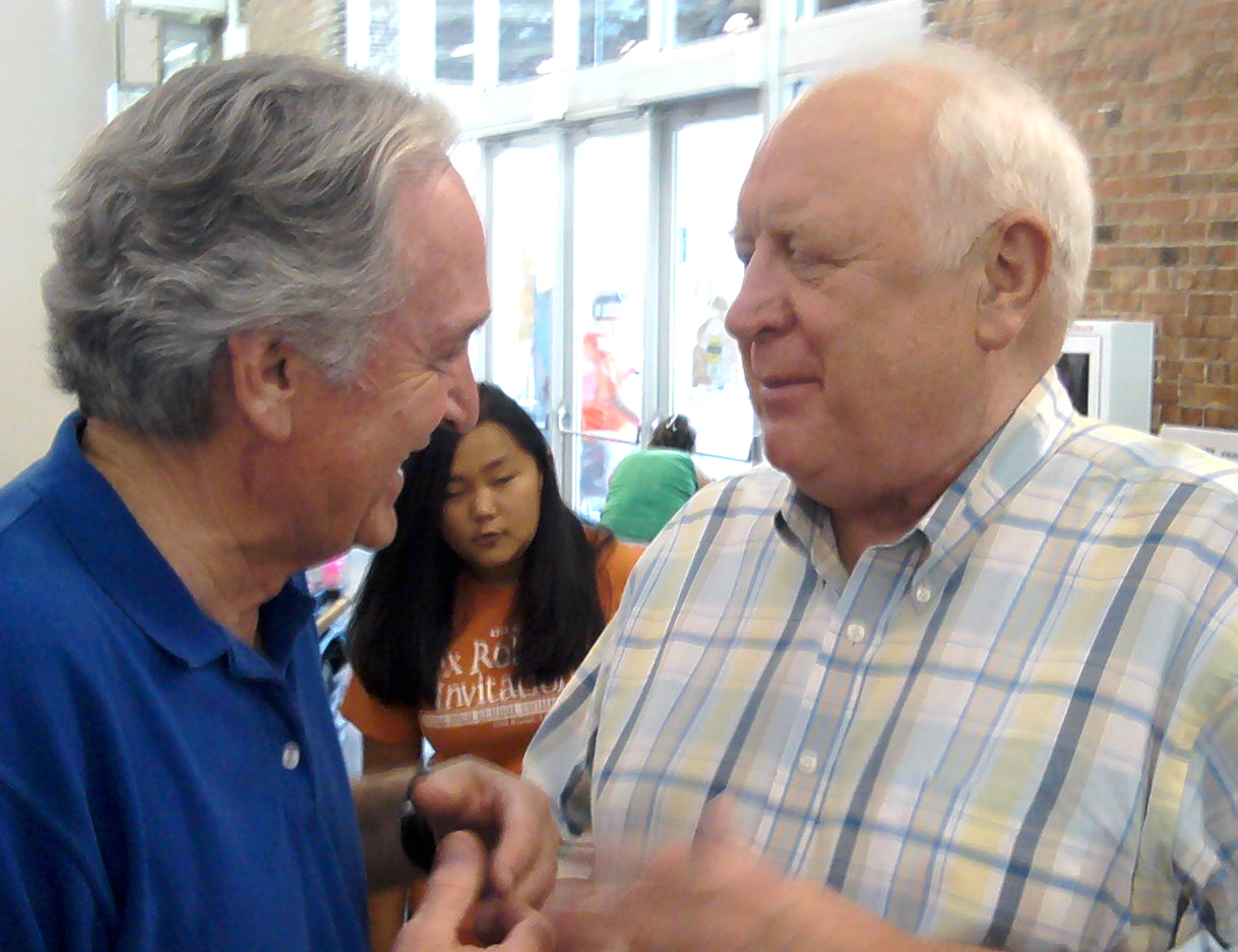 Harkin and Culver at state fair